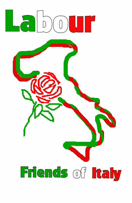 Labour Friends of Italy official logo